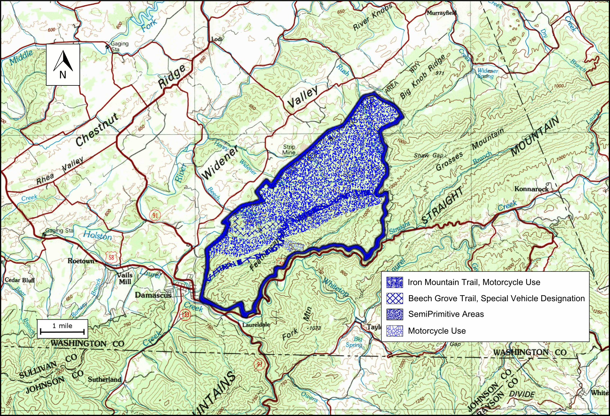 Boundary of the Featjercamp wildland in the Jefferson National Forest as identified by the Wilderness Society